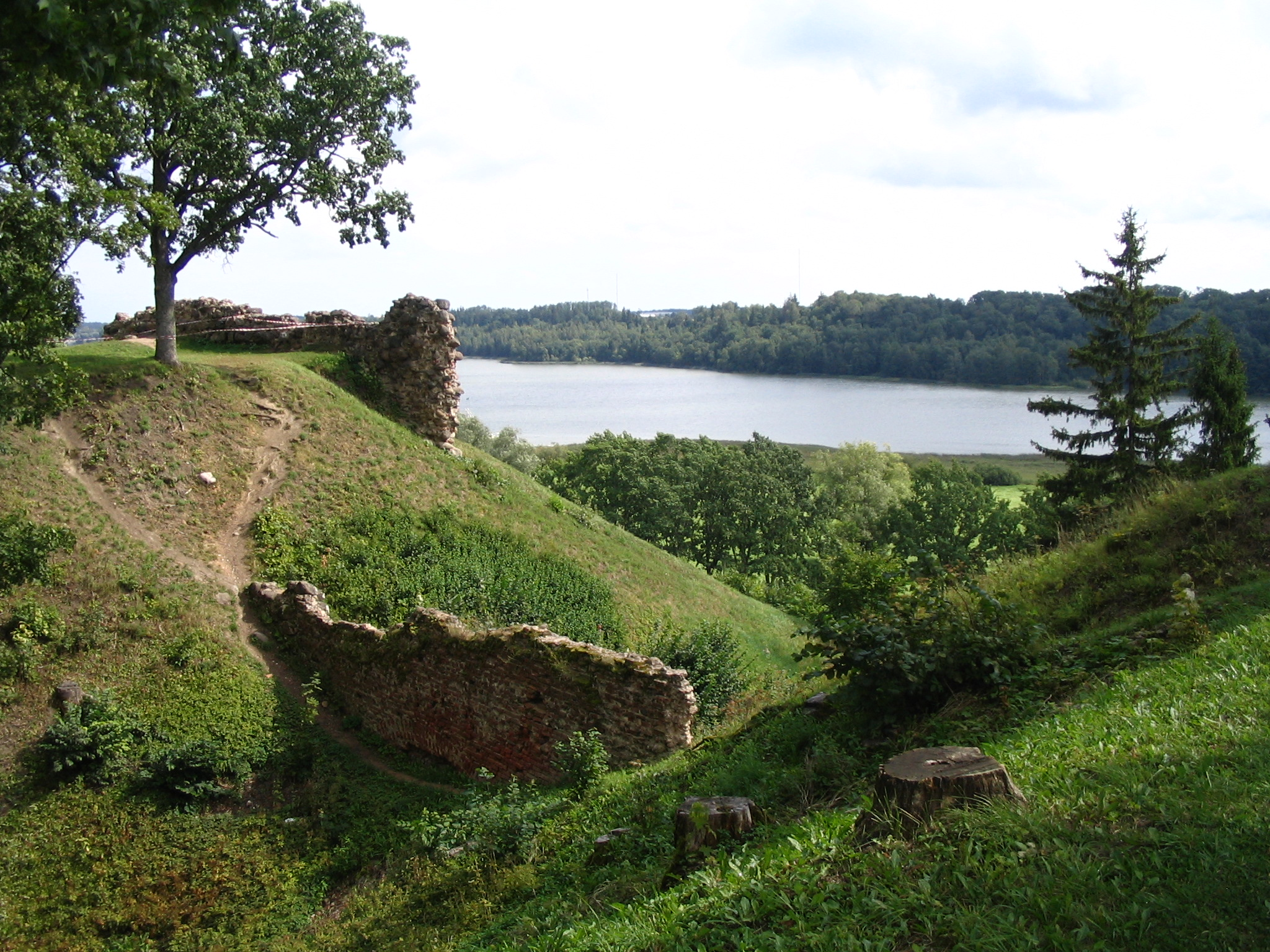 Remains of the connecting wall of the inner and the second outer bailey (in background) in the moat. Lake Viljandi in the background.